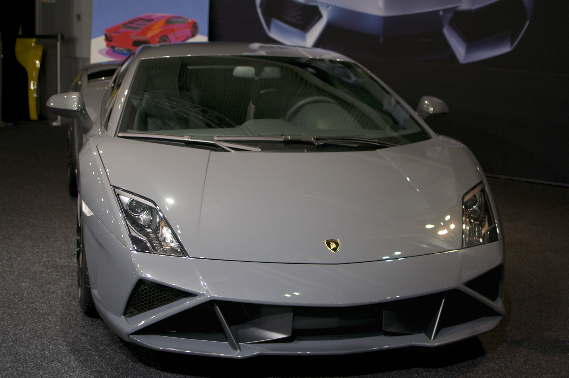 The 2012-Version of the Lamborghini Gallardo LP560-4 at the Vienna Autosalon 2013